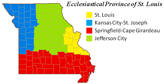 Ecclesiastical Province of St. Louis in the Catholic Church encompasses the entire state of Missouri, USA.